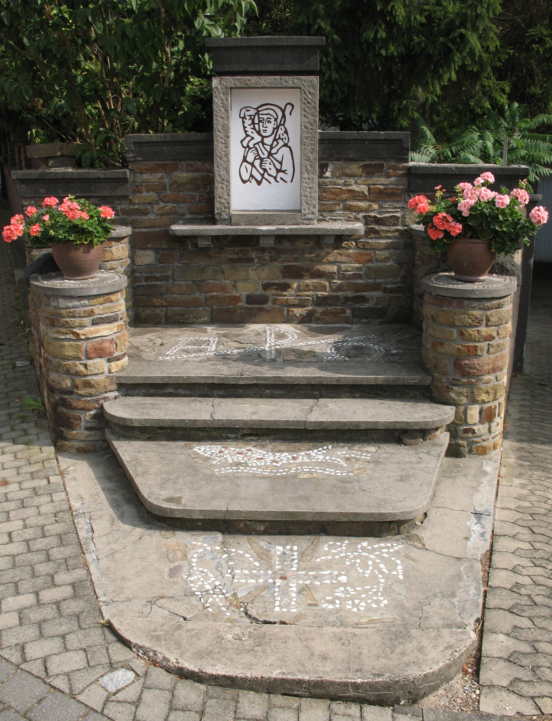 Wayside shrine in Waldorf in Rhineland-Palatinate, Germany